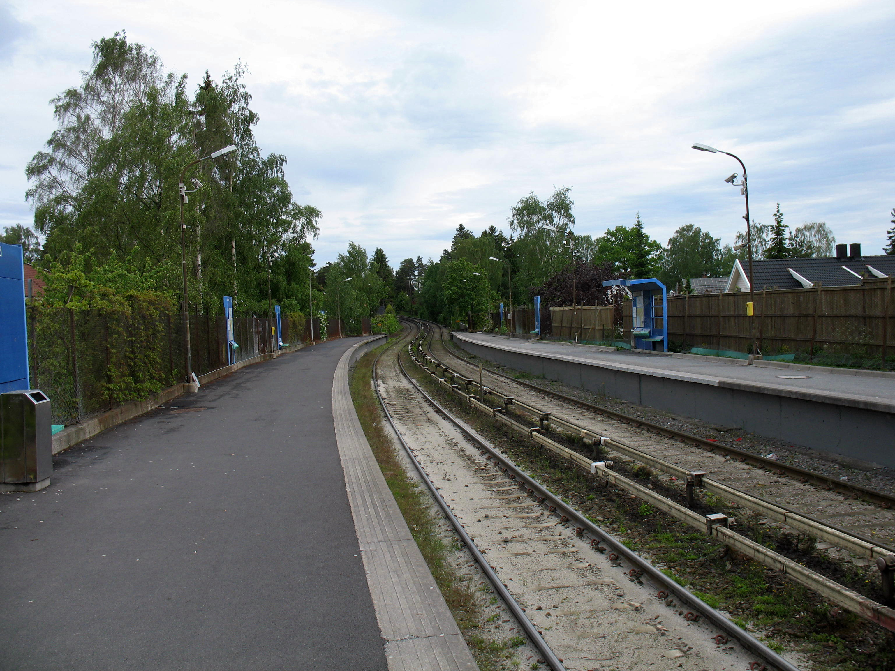 Karlsrud is a station on the Oslo T-bane located in the Nordstrand borough, Oslo, Norway